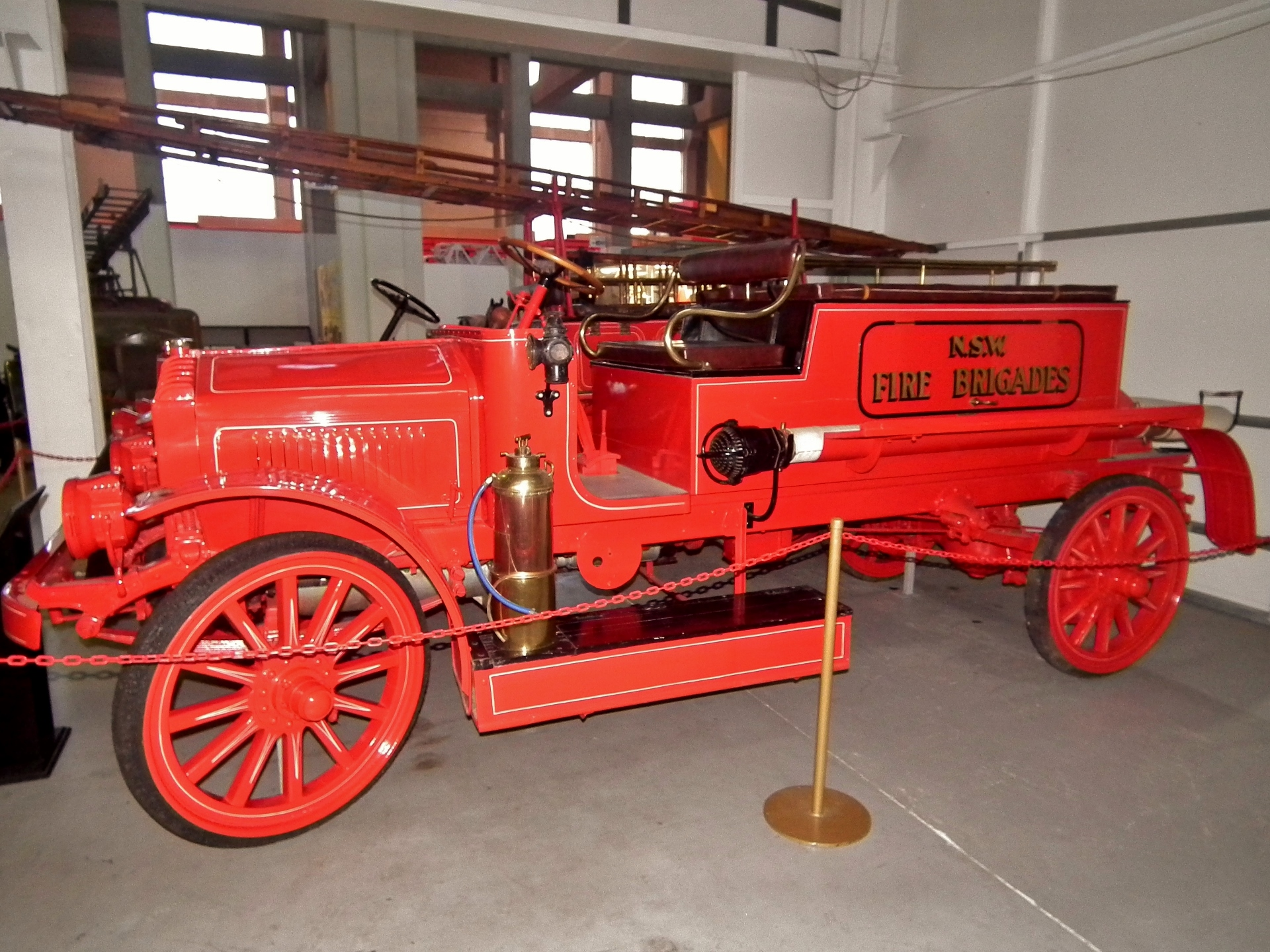 1919 Garford Type 75 pumper. Taken at the Museum of Fire, Penrith, NSW.